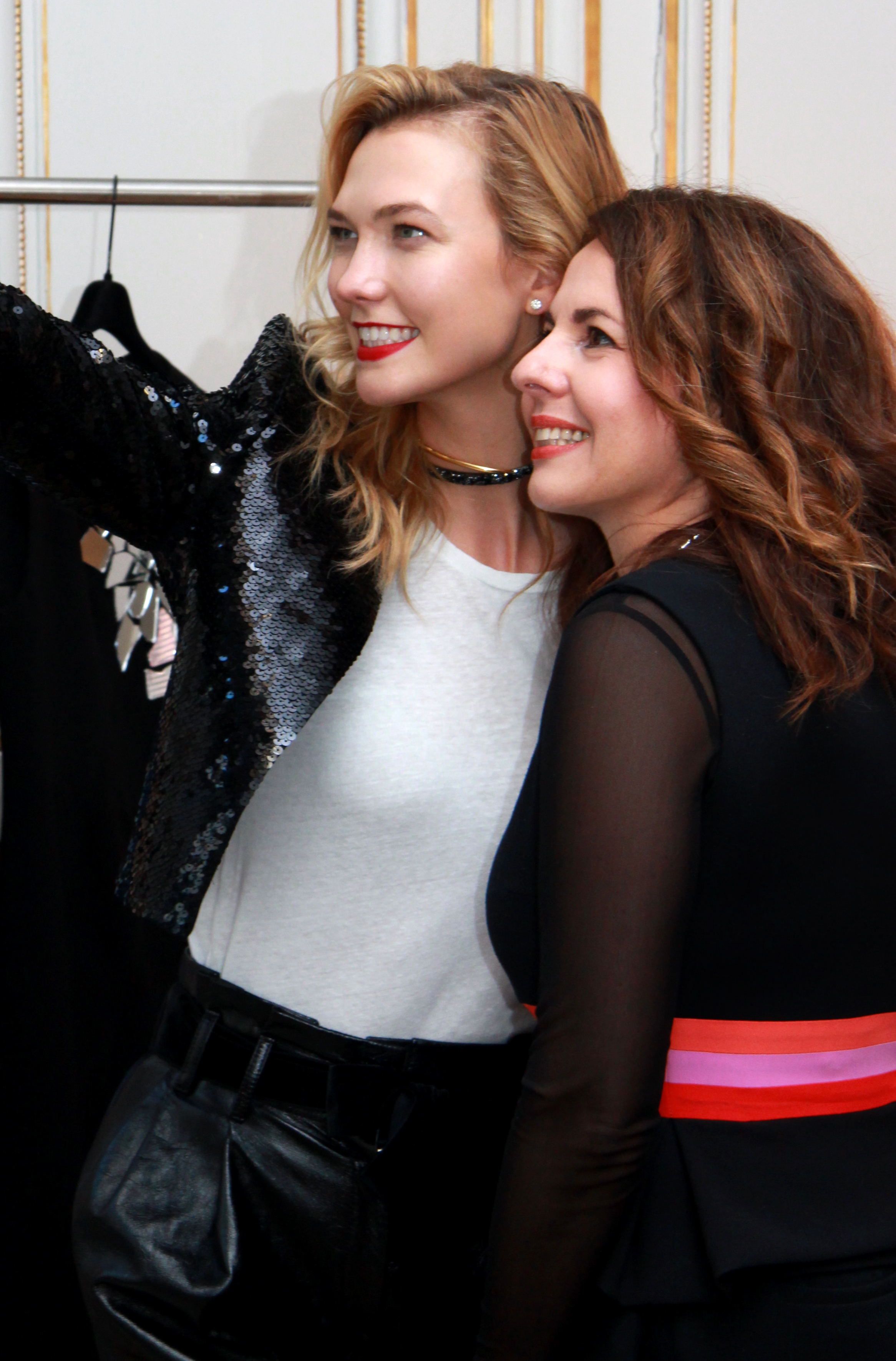 Top model Karlie Kloss and Nathalie Colin taking a selfie.